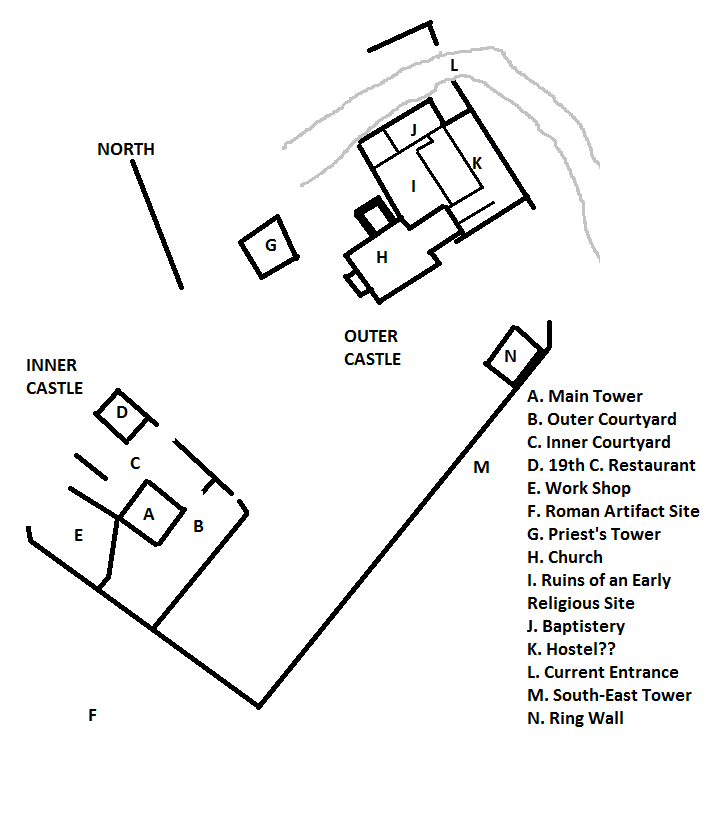 Plan of Hohenrätien [Hochrialt] Castle in the Canton of Graubünden in Switzerland. Based on the sketches at and